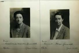 Marian and Hope Gamwell sisters in 1930 - this their Aero licences. Both were in the FANY and Marian lead it